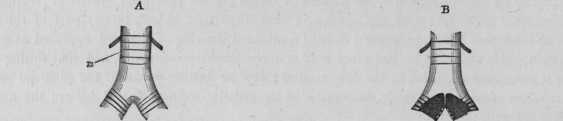 "Synrix of Xenicus longipes, much enlarged. A From in front. B. From Behind. m. Lateral tracheal muscle." (Bush Wren).